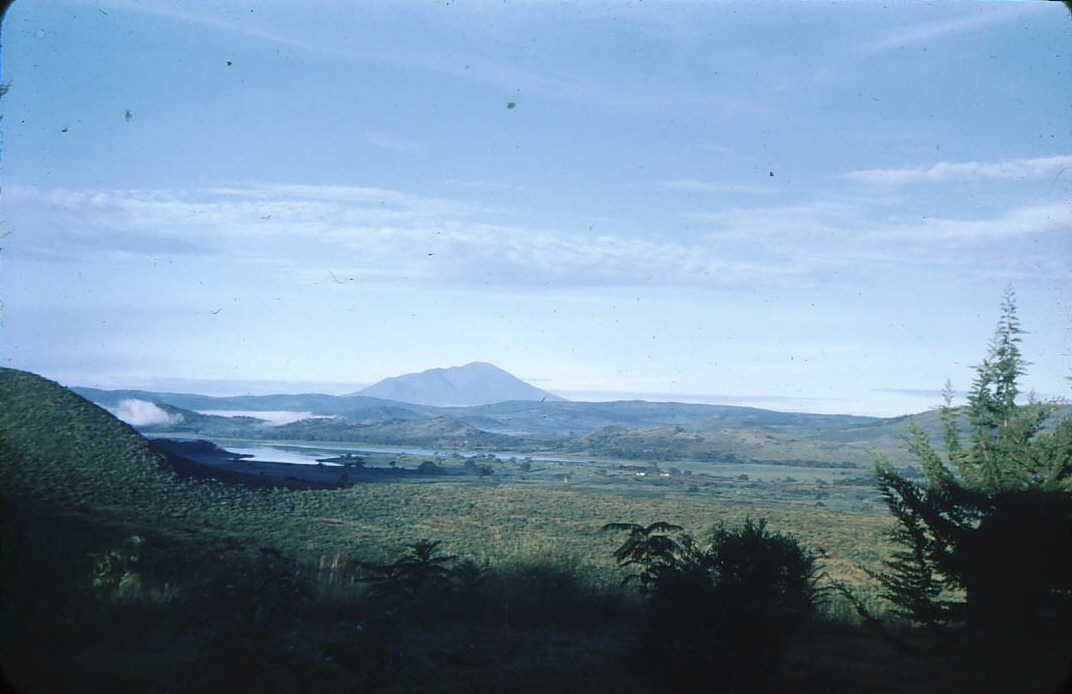 Lake Babati, Tanzania (Tanganyika) from the lower slopes of Mt Kwahara. Mt Hanang in the distance.